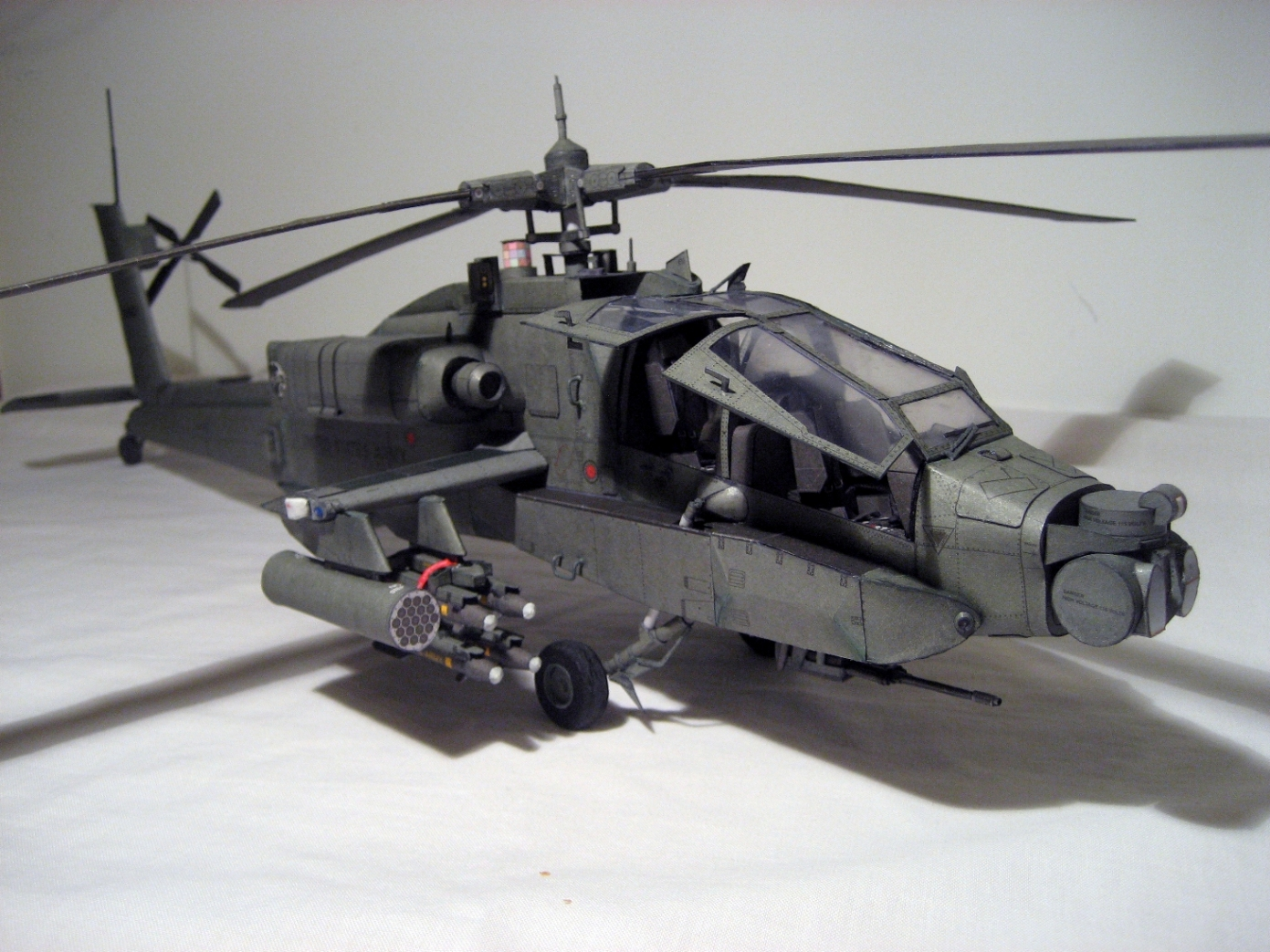 AH-64A Apache paper model. Scale 1/33